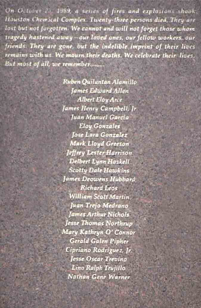 close up of granite memorial to the 23 workers killed during the 23-Oct-1989 Phillips Disaster